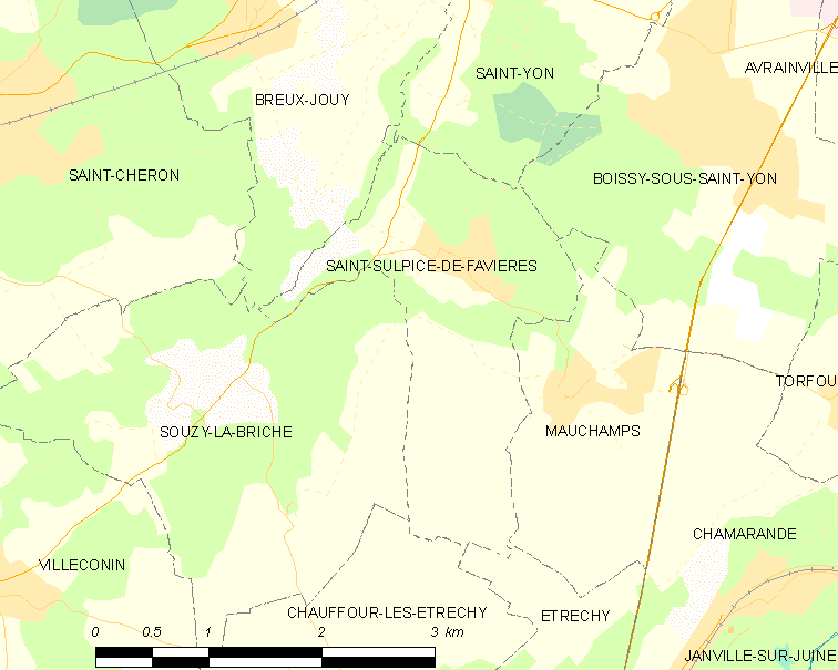 Map of French municipality Saint-Sulpice-de-Favières